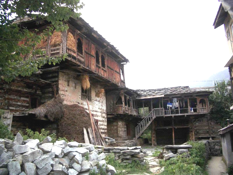 Old style home, Manali